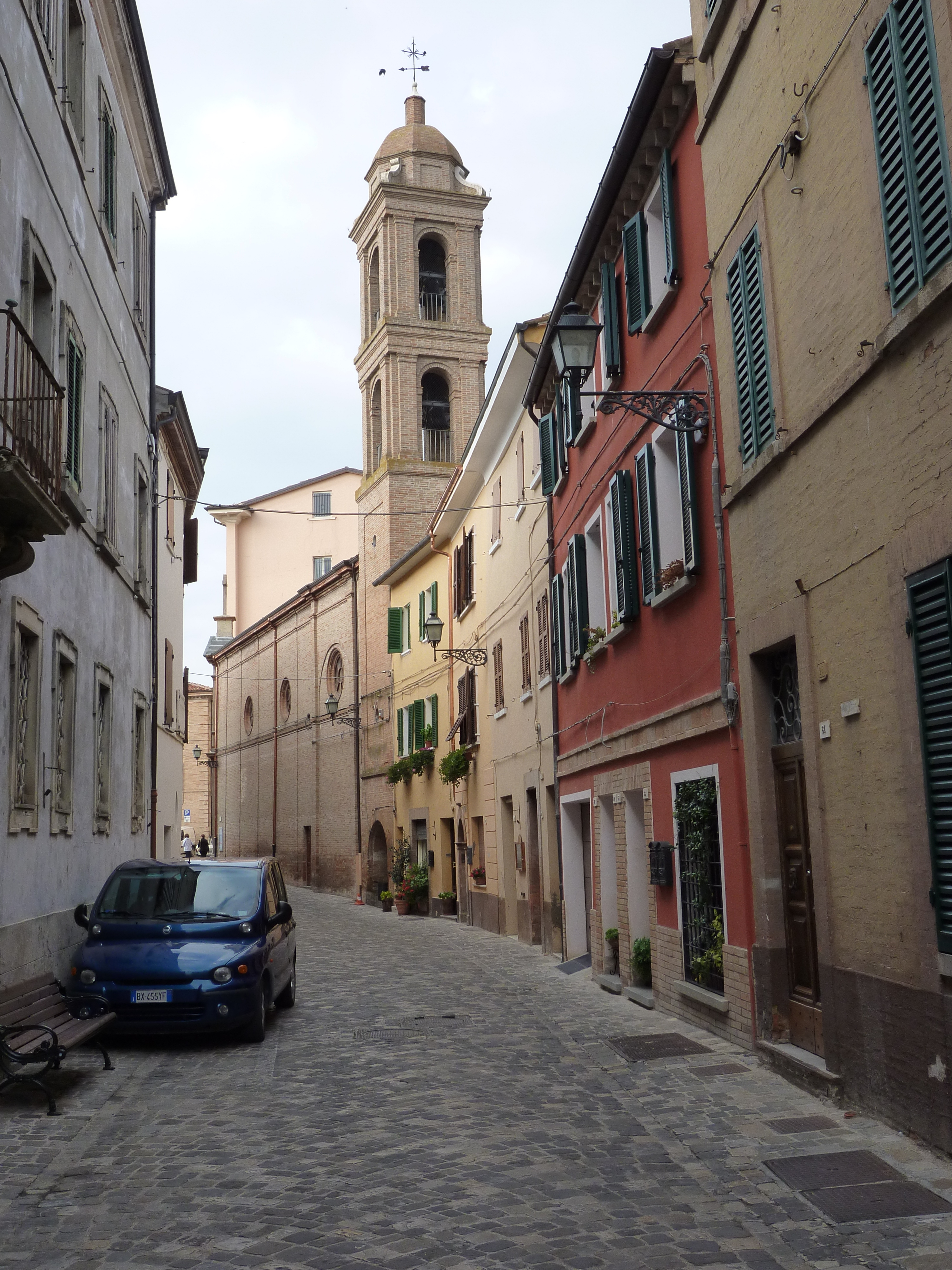 Via Crescentini, Sassocorvaro, province of Pesaro-Urbino, Marche